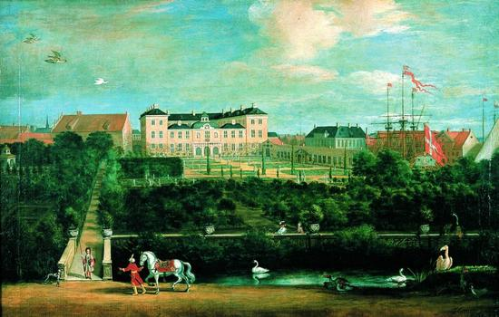 Painting showing Charlottenborg Palace in Copenhagen, Denmark as seen from the garden (rear side)